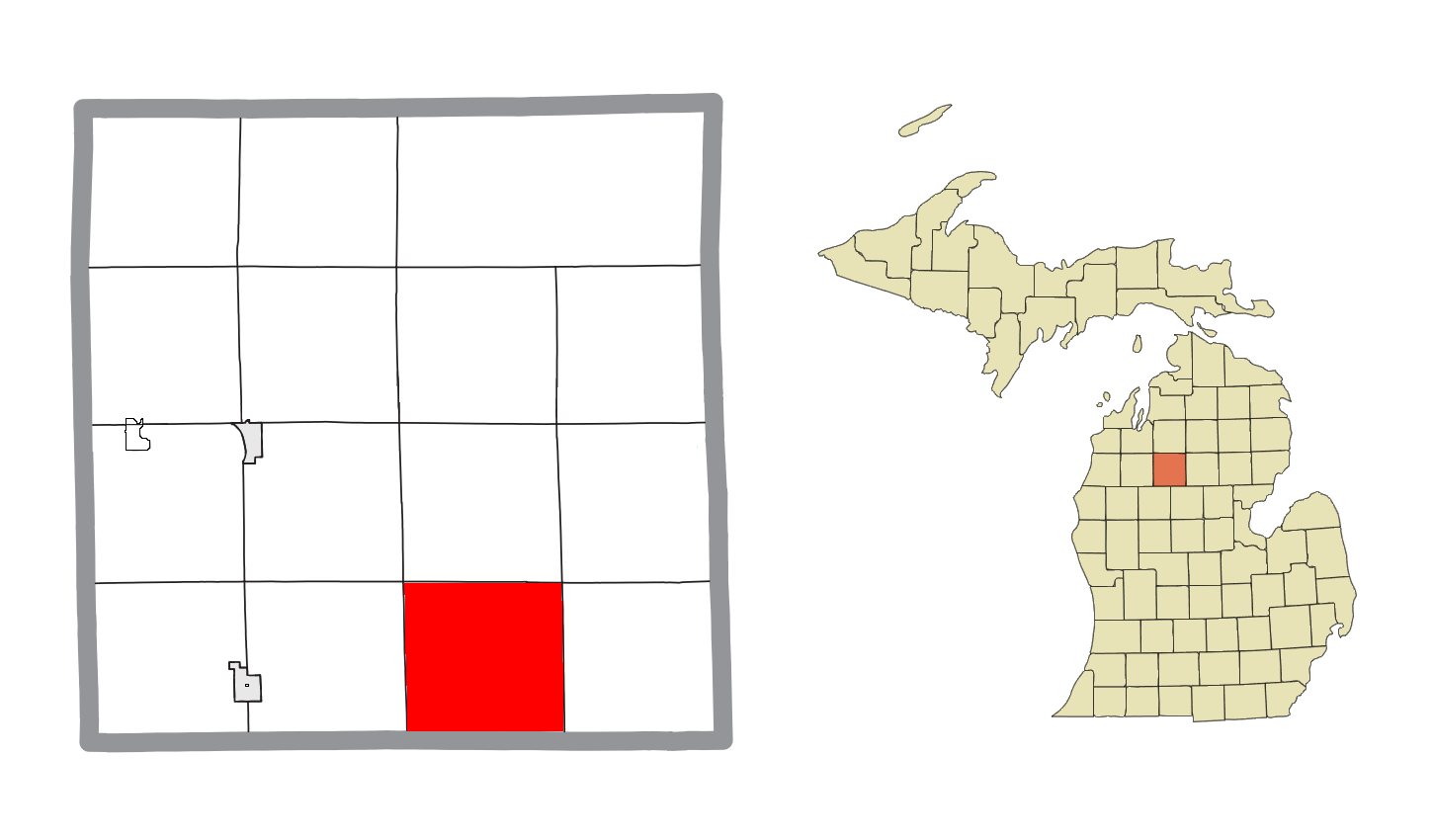 Clam Union Township, MI